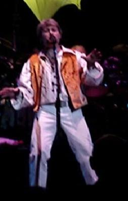 Benoît David in concert with Yes, fall 2008. Benoît David (19 April 1966, Montreal) is a Canadian progressive rock singer. In 2008, he was selected by members of the group Yes to stand in for an ailing Jon Anderson.